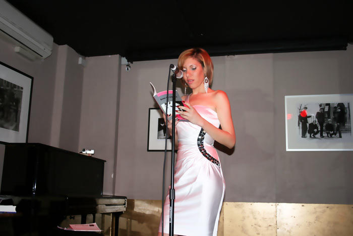 Yamilka reading from her first english book on her 30s birthday party